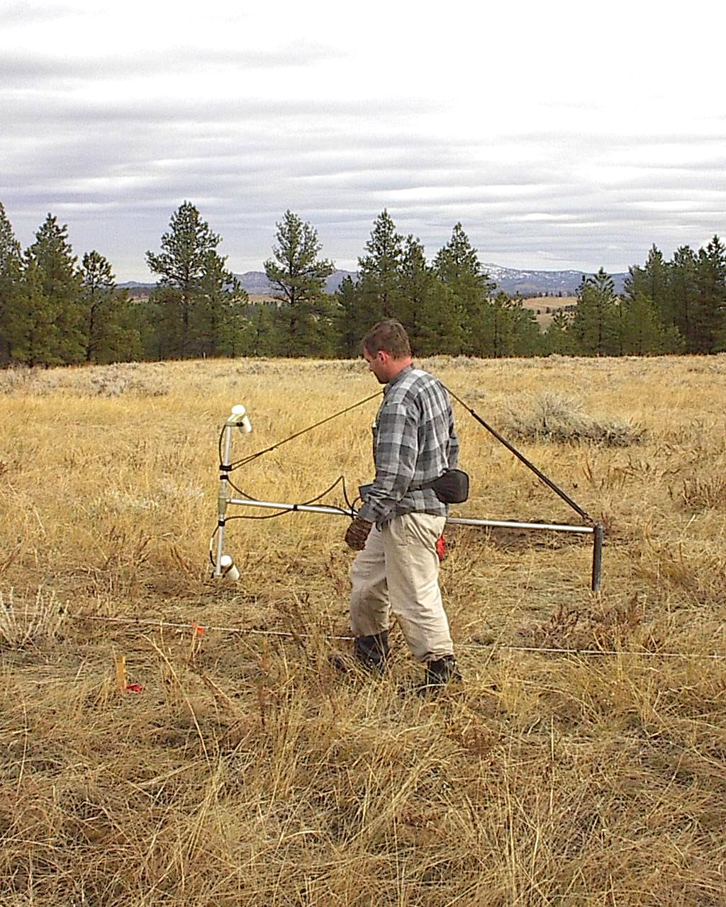 Magnetic survey of an archaeological site in Montana, USA. The instrument is a cesium vapor magnetometer with two sensors for measuring the vertical gradient of the geomagnetic field.